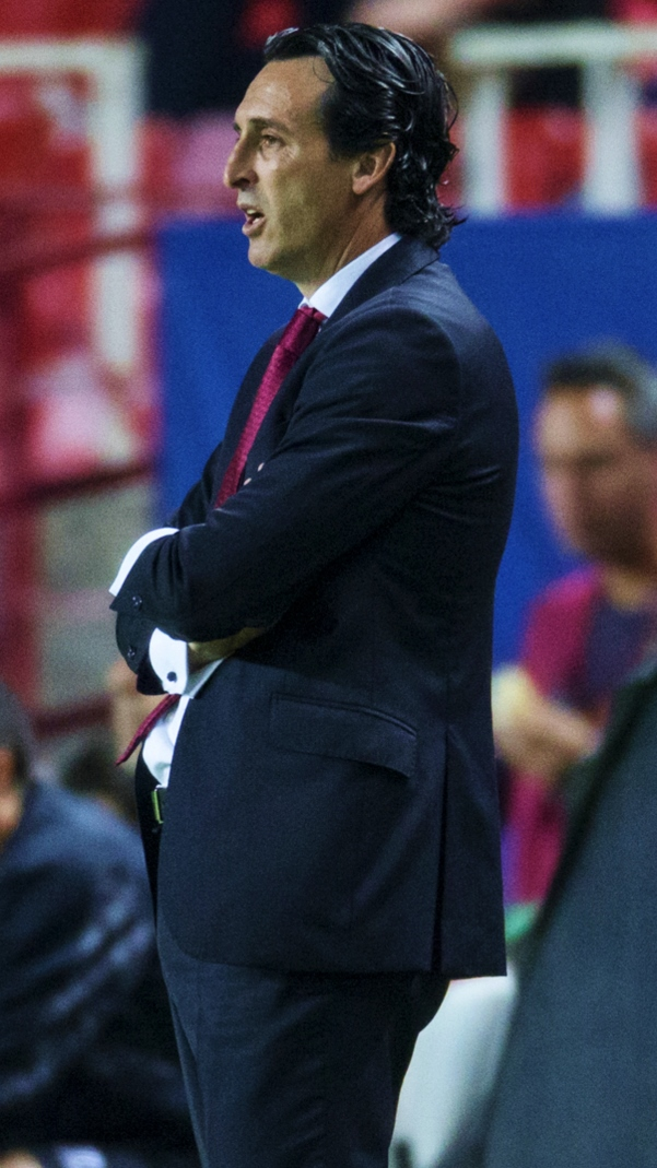 16.04.2015. Испания, Севилья, стадион «Эстадио Рамон Санчес Писхуан». Лига Европы УЕФА 2014/2015, 1/4 финала, «Севилья» — «Зенит». На снимке: Унаи Эмери, главный тренер ФК «Севилья».